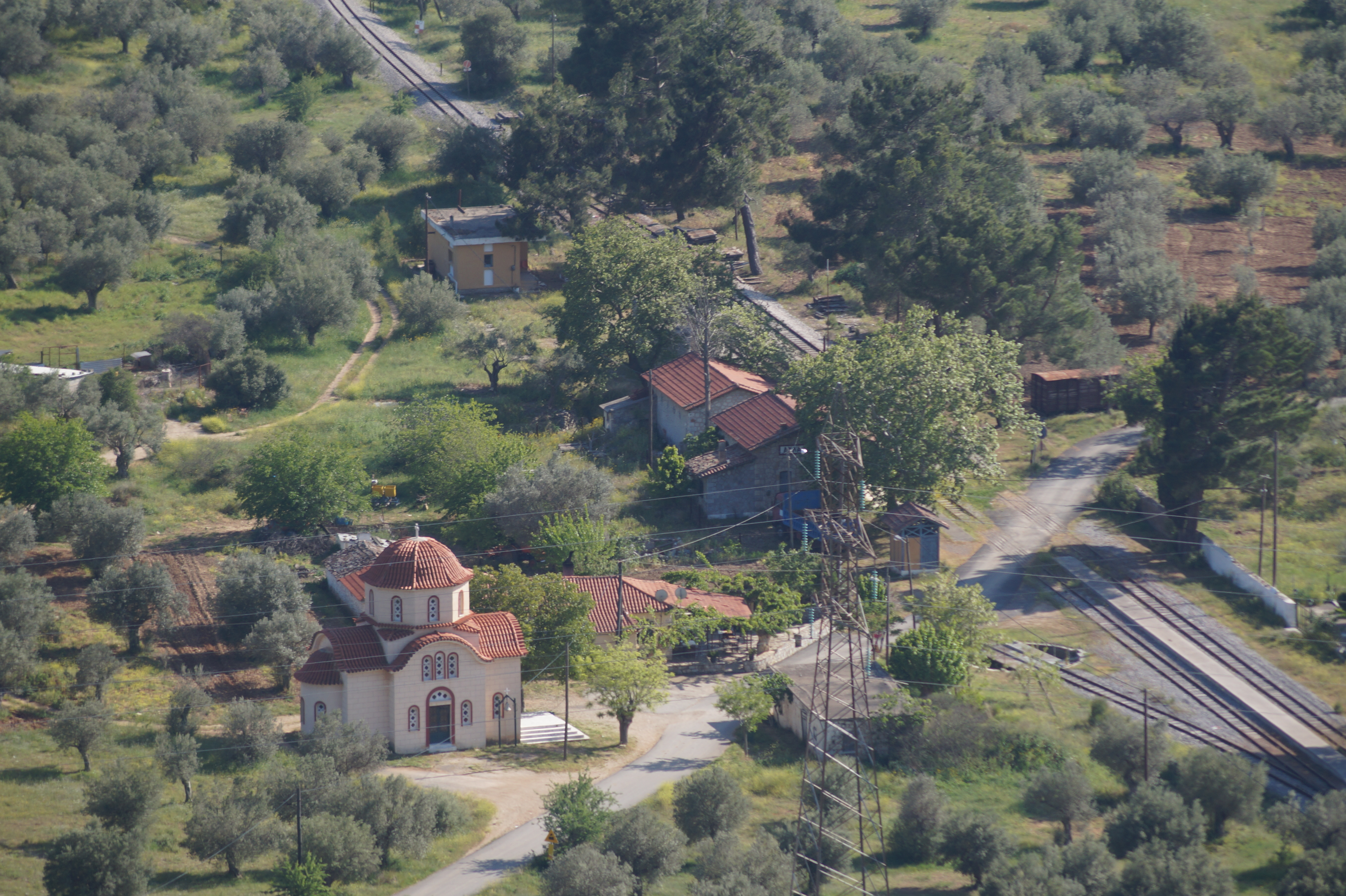 Achladokampos, Peloponnes, Greece: View from ancient Hysiae on the railway station of Achladokampos. On the left there is the church of Agiou Konstantinou kai Eleni.